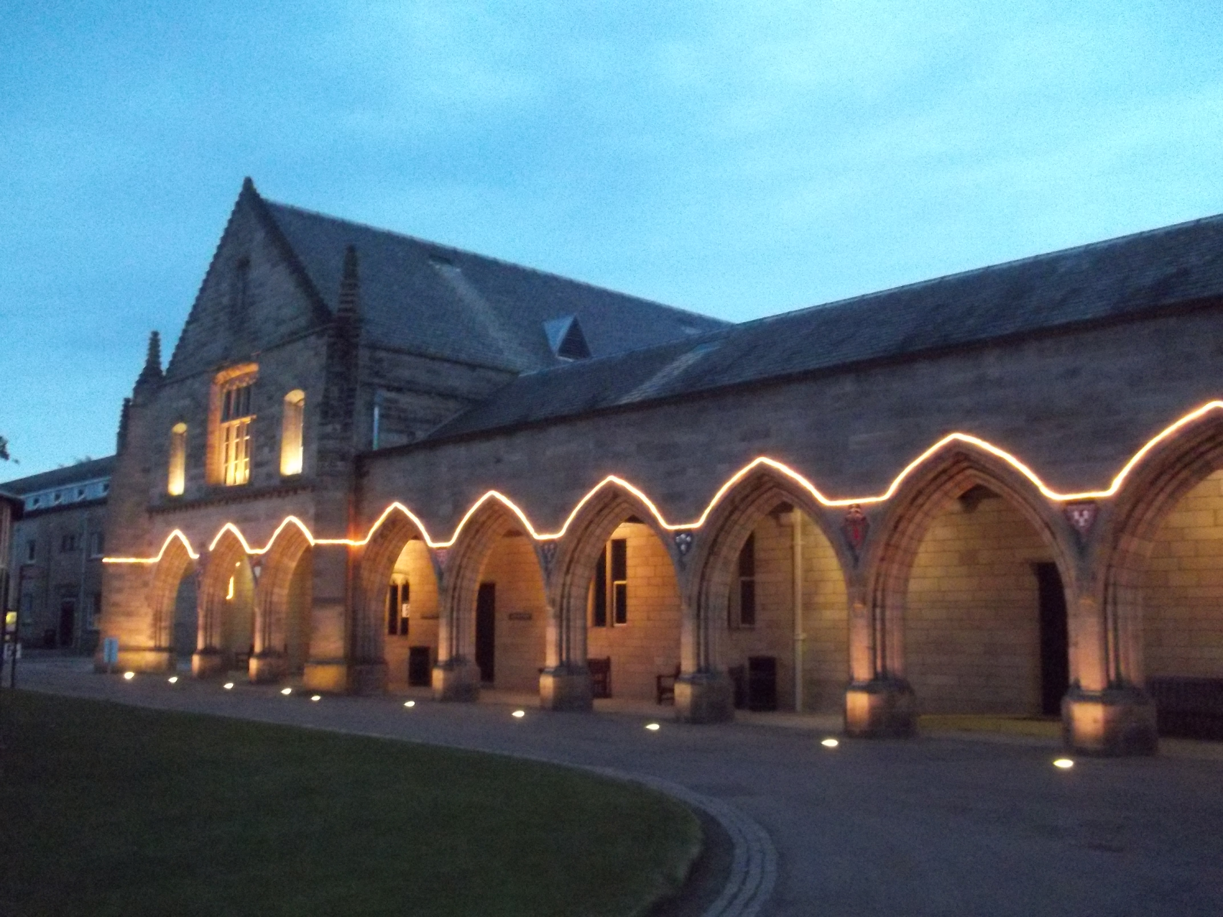 Elphinstone Hall, Aberdeen University, Old Aberdeen, Aberdeen, Scotland